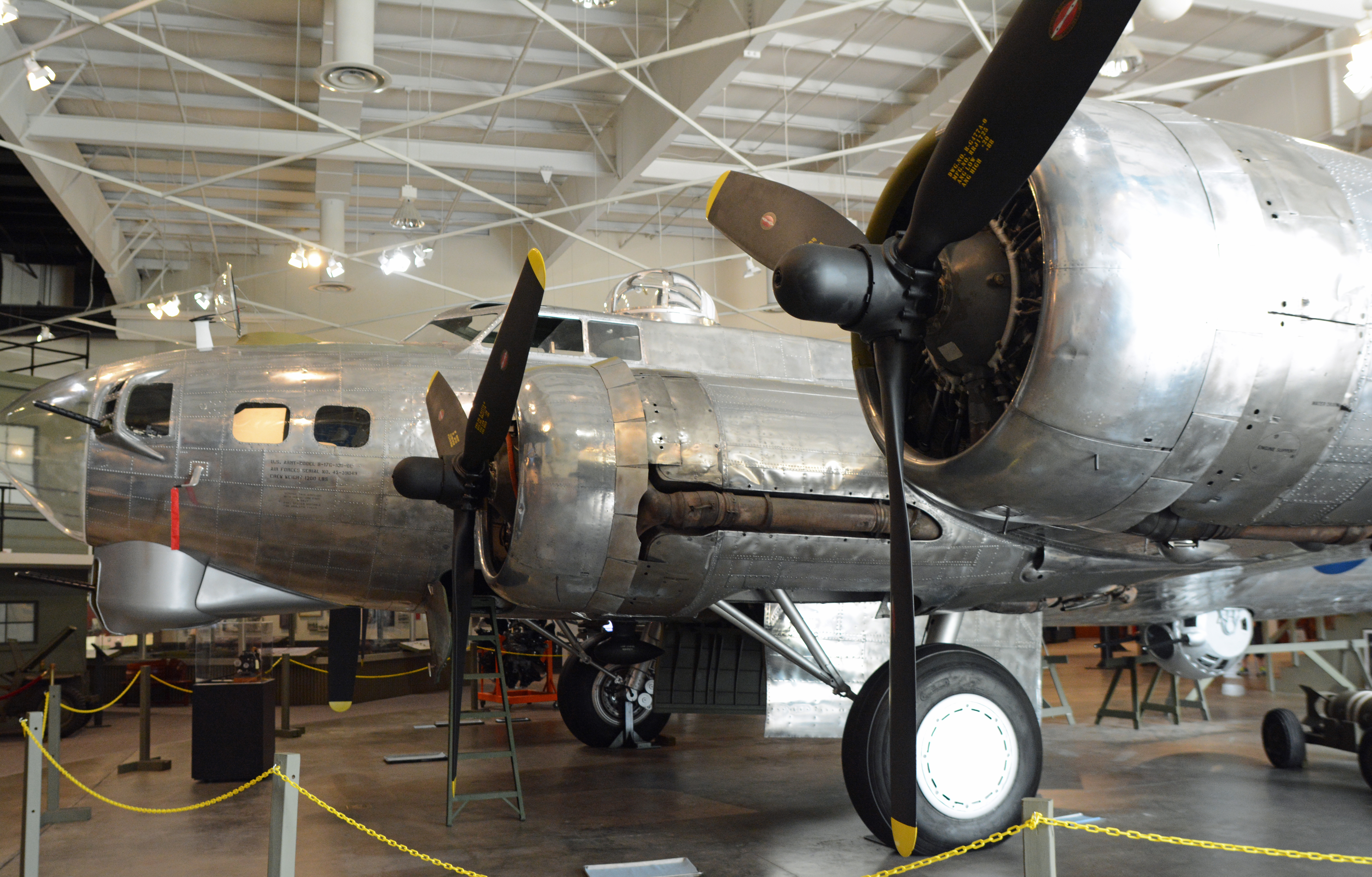 B-17 being restored at the Mighty Eighth Air Force Museum, Pooler, Georgia, US